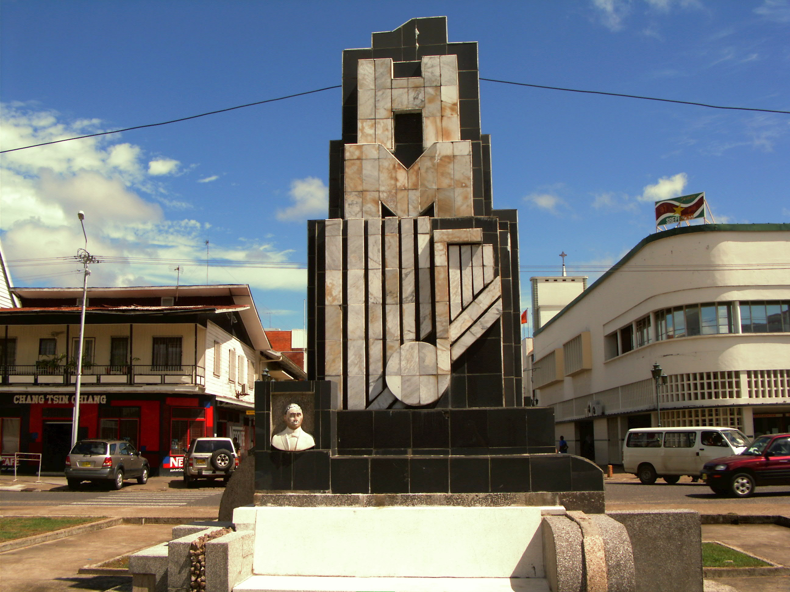 Helstone monument in Paramaribo, Suriname